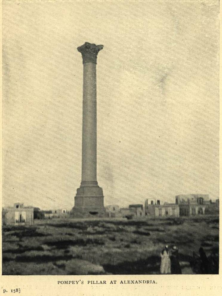 A tall pillar in the middle of a plain.